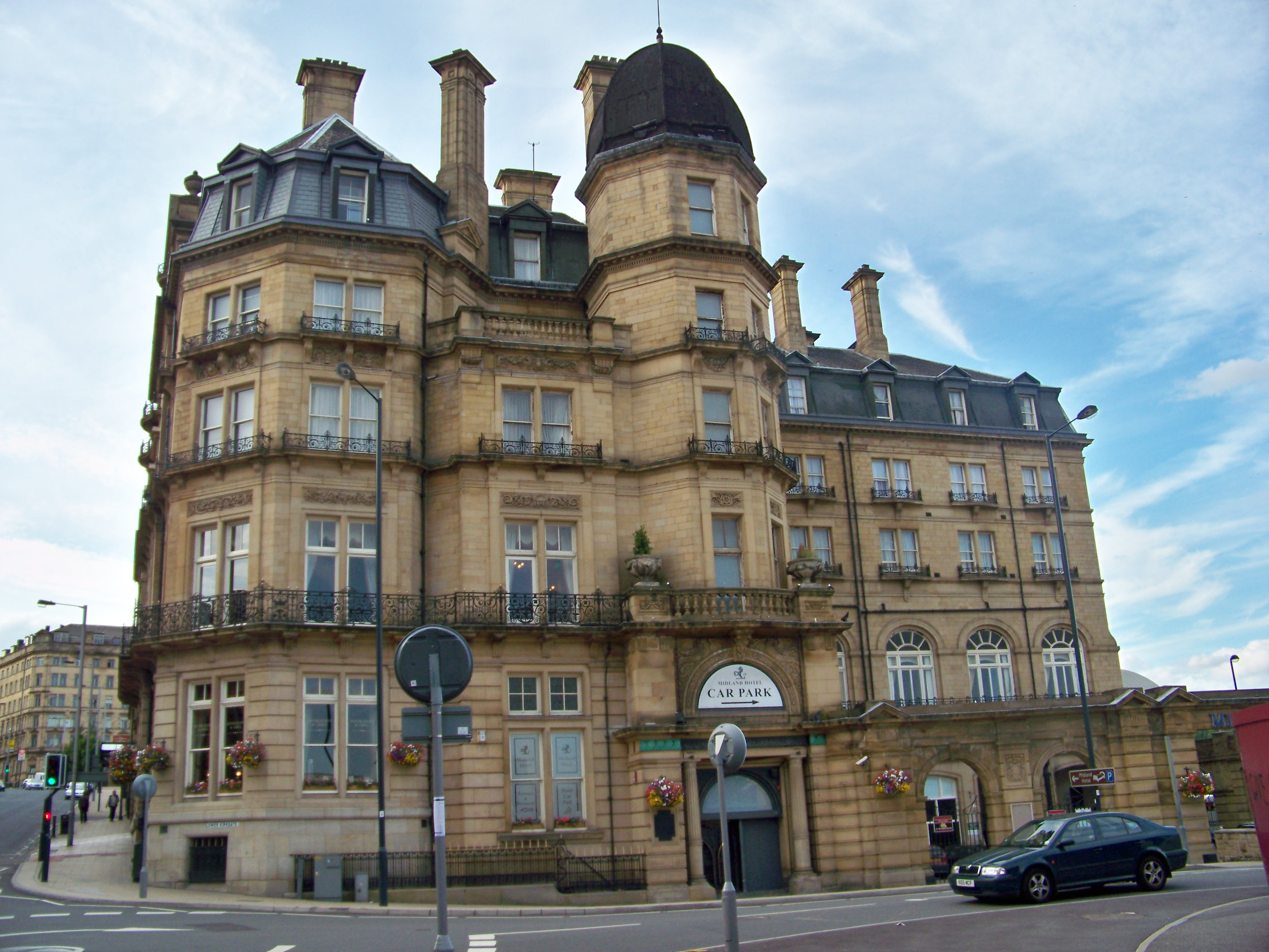 The Midland Hotel, Bradford, West Yorkshire, England. Taken on the Evening of Wednesday 5th August 2009.